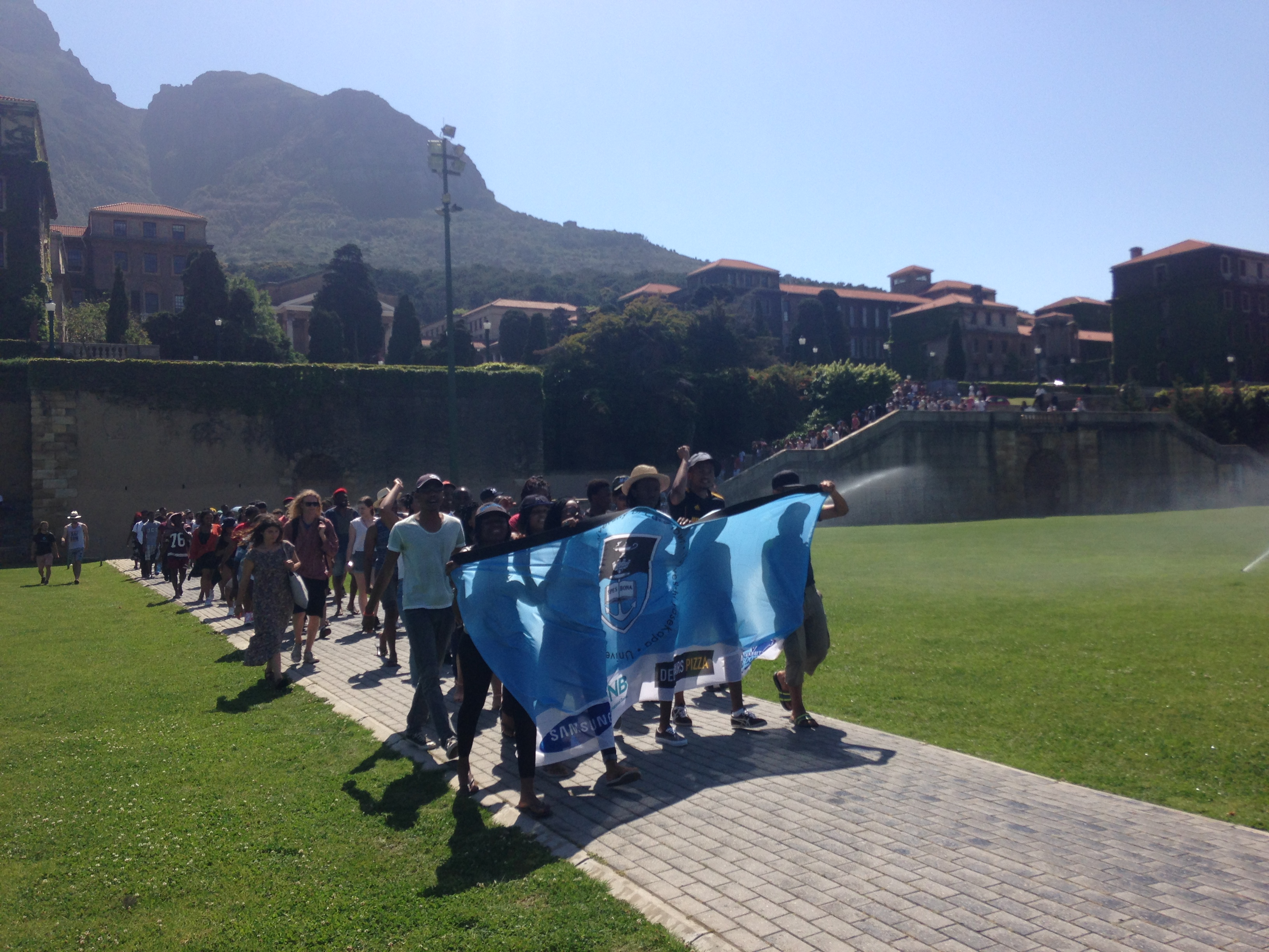 The second day of protests at the University of Cape Town calling for student fees and debts to be lowered. Was on of a number of such protests across South Africa on the day.